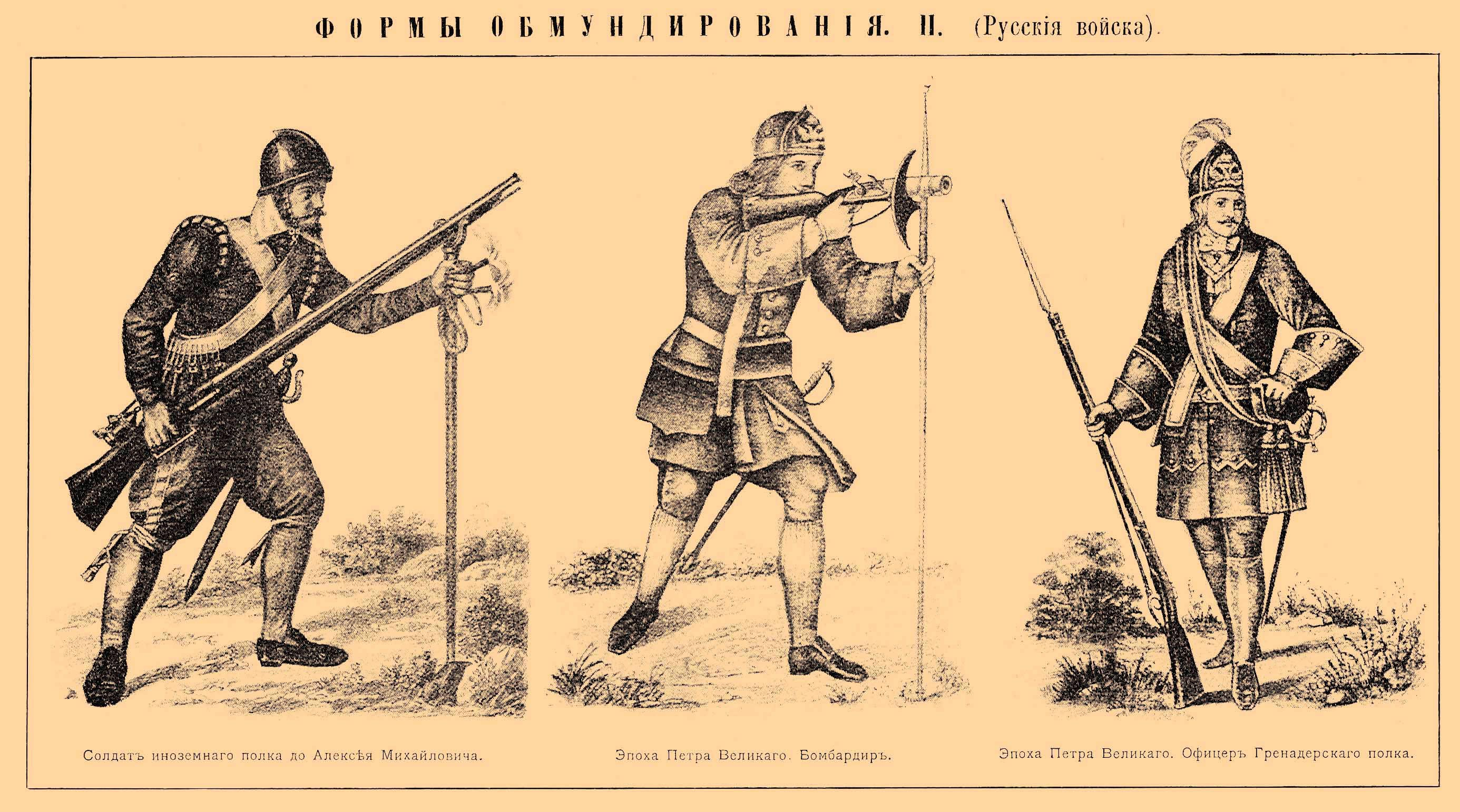 Illustration from Brockhaus and Efron Encyclopedic Dictionary (1890—1907)